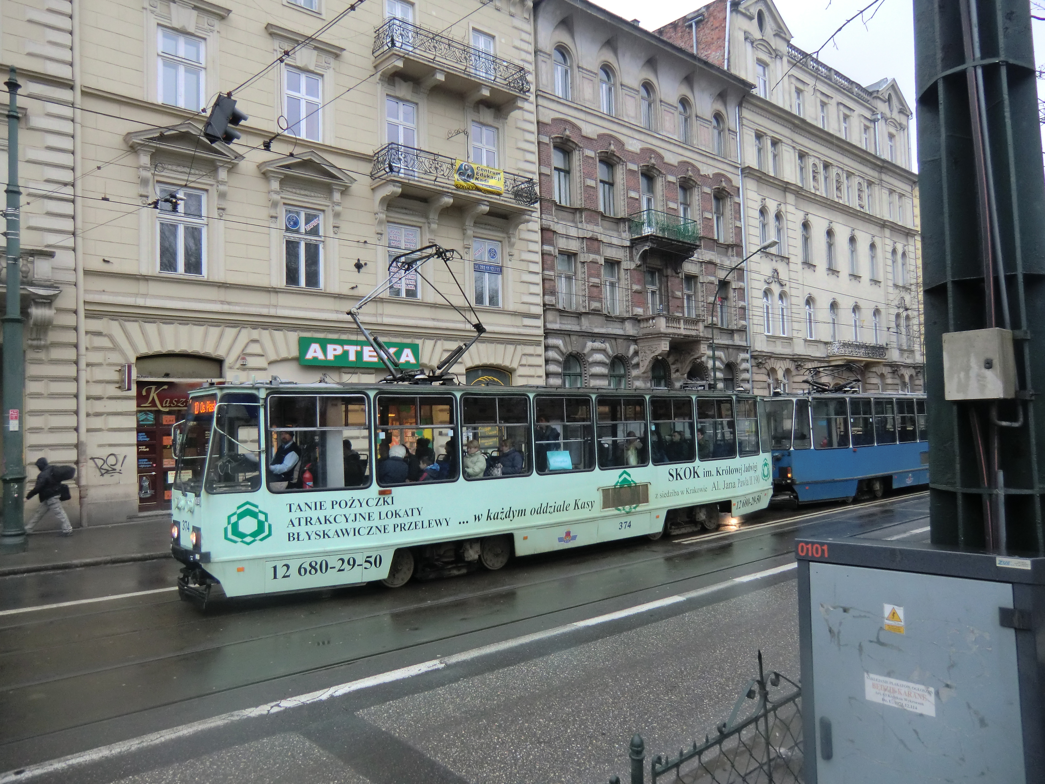 Konstal 105Nb produced in 1988 n°374 and Konstal 105Na n°375 in a M+M consist in Kraków.